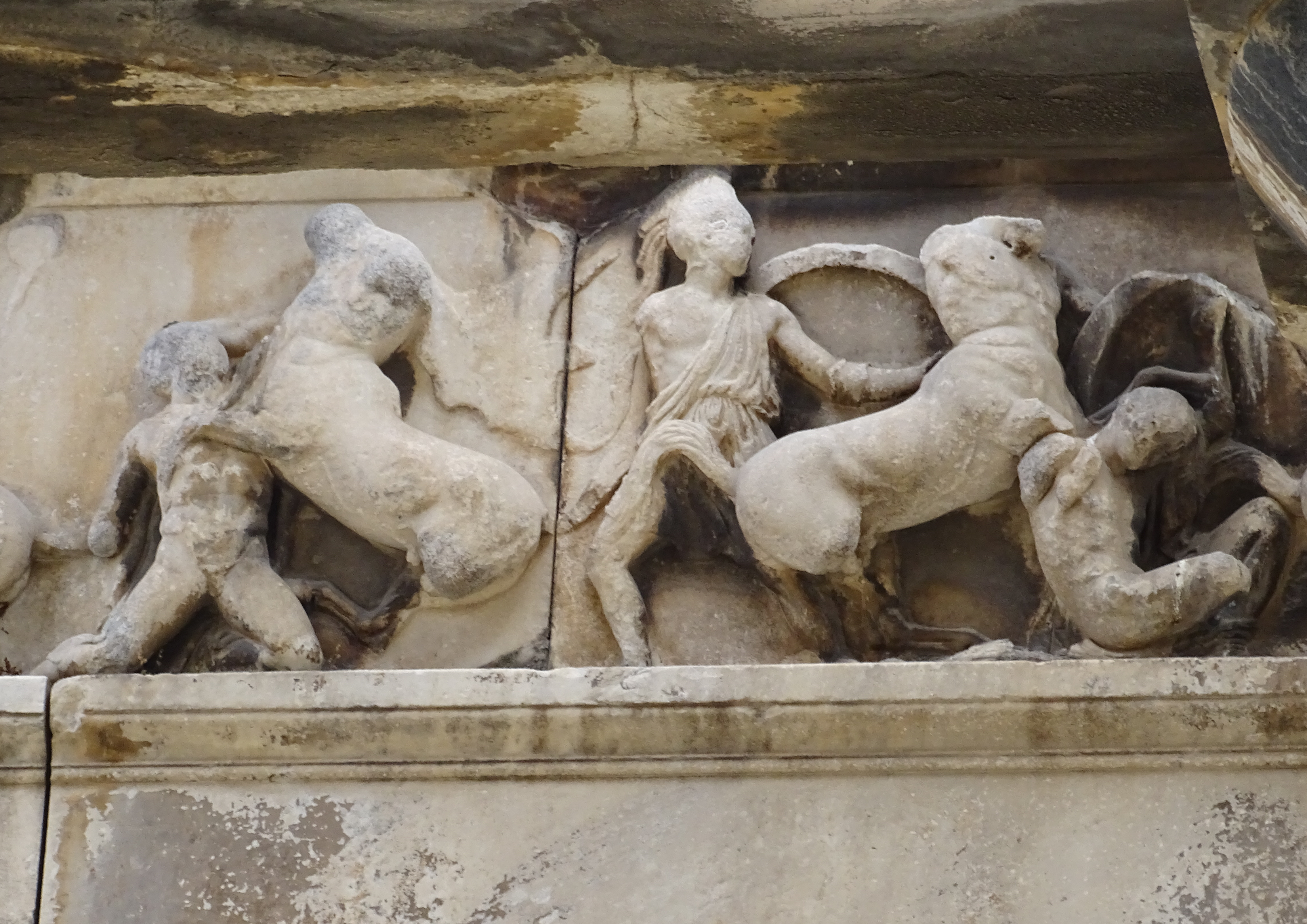 The Hephaisteion, or temple of Hephaestus, as seen from the Acropolis, Athens.